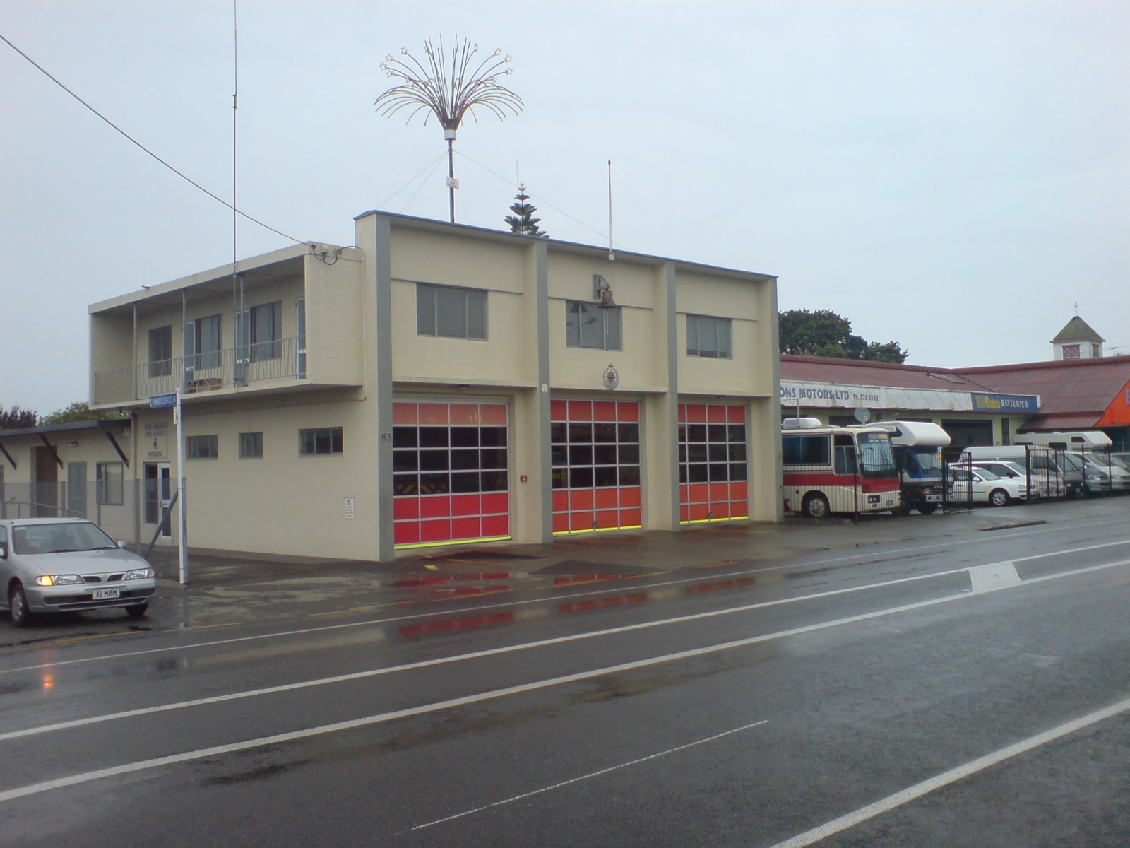 The fire station in Motueka, New Zealand. Not much of a fire danger on this rainy day.